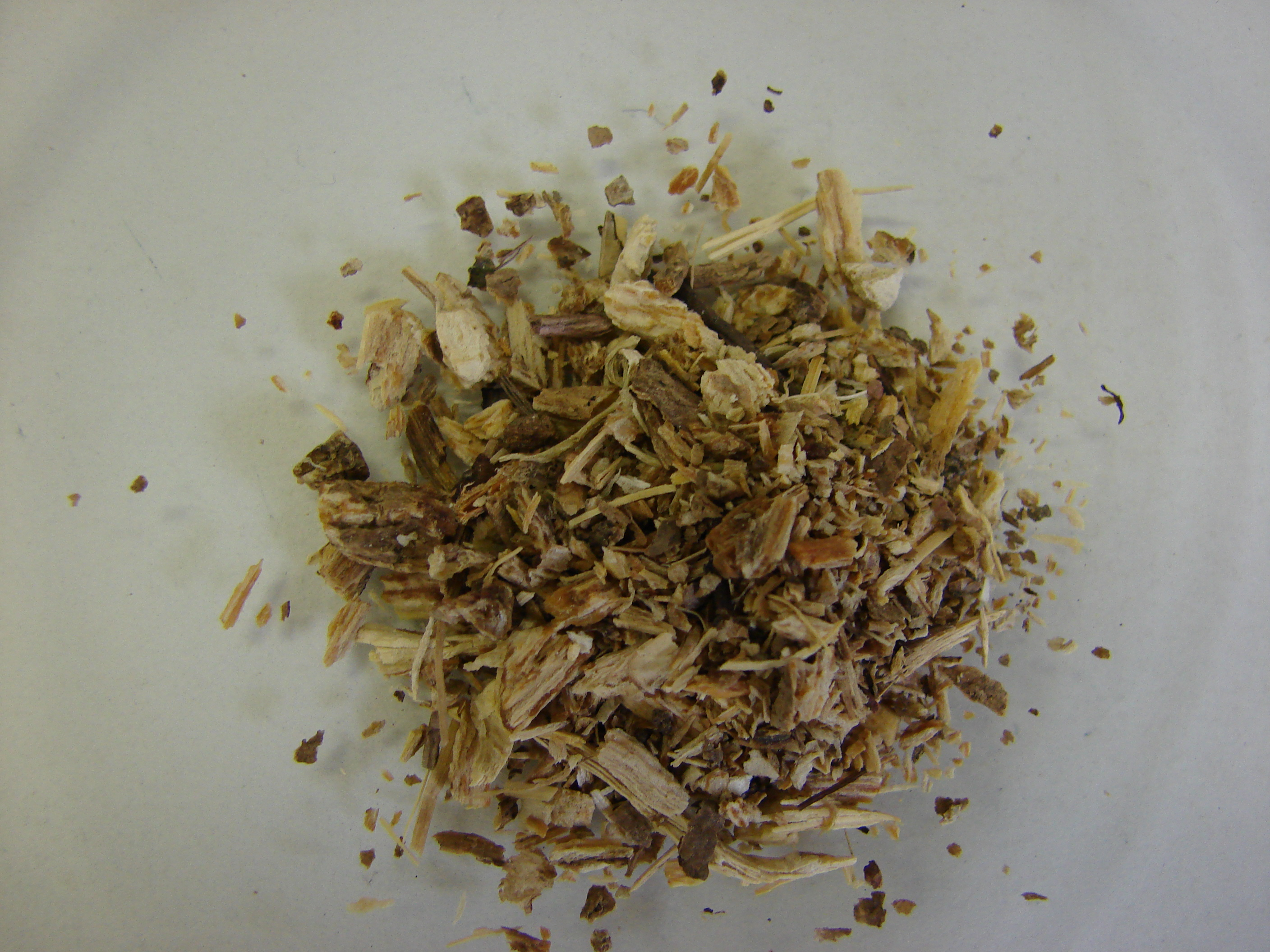 Araliae racem. radix, Aralia racemosa